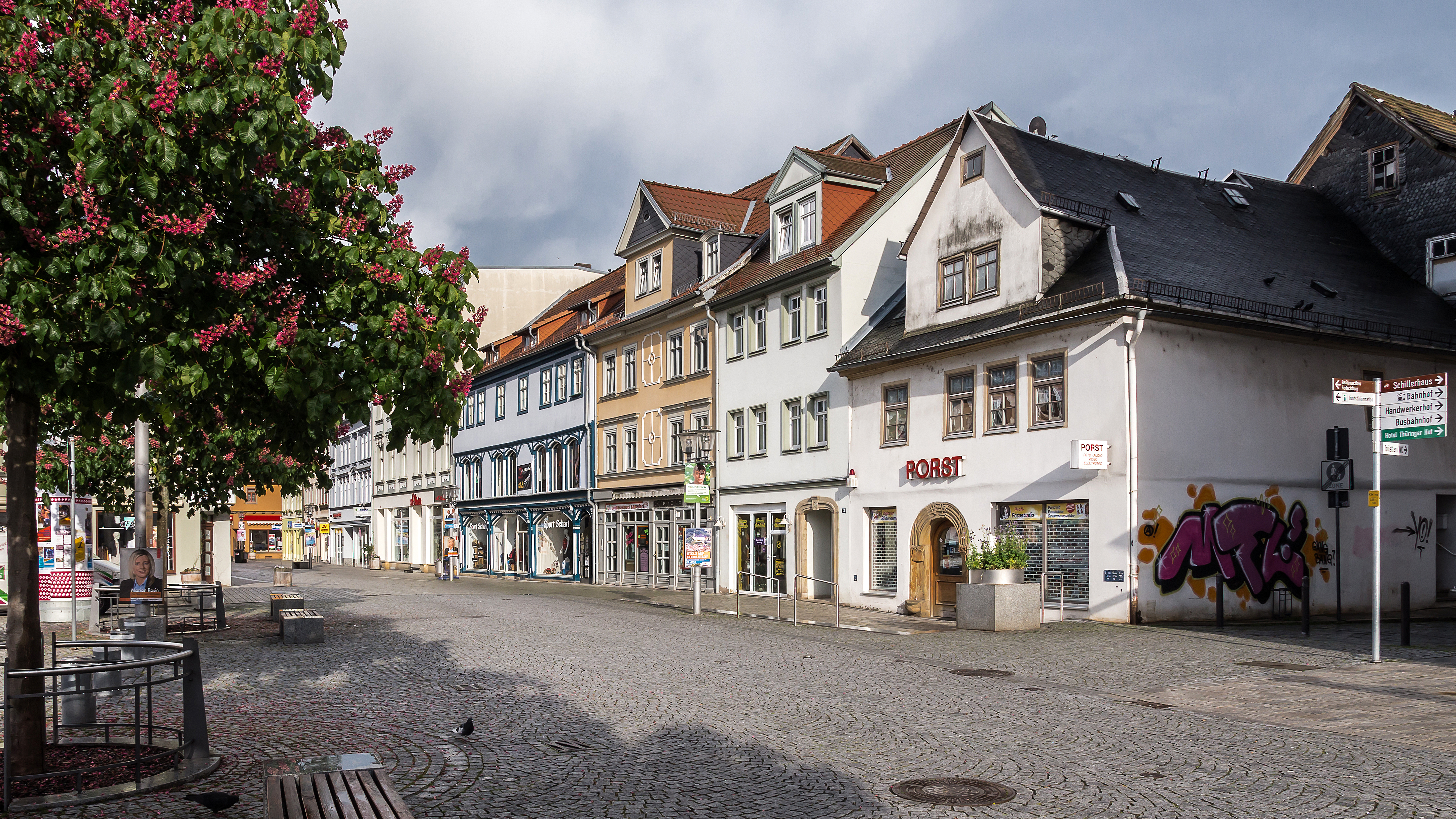 Rudolstadt Kernstadt Denkmalensemble „Kernstadt Rudolstadt“ IV